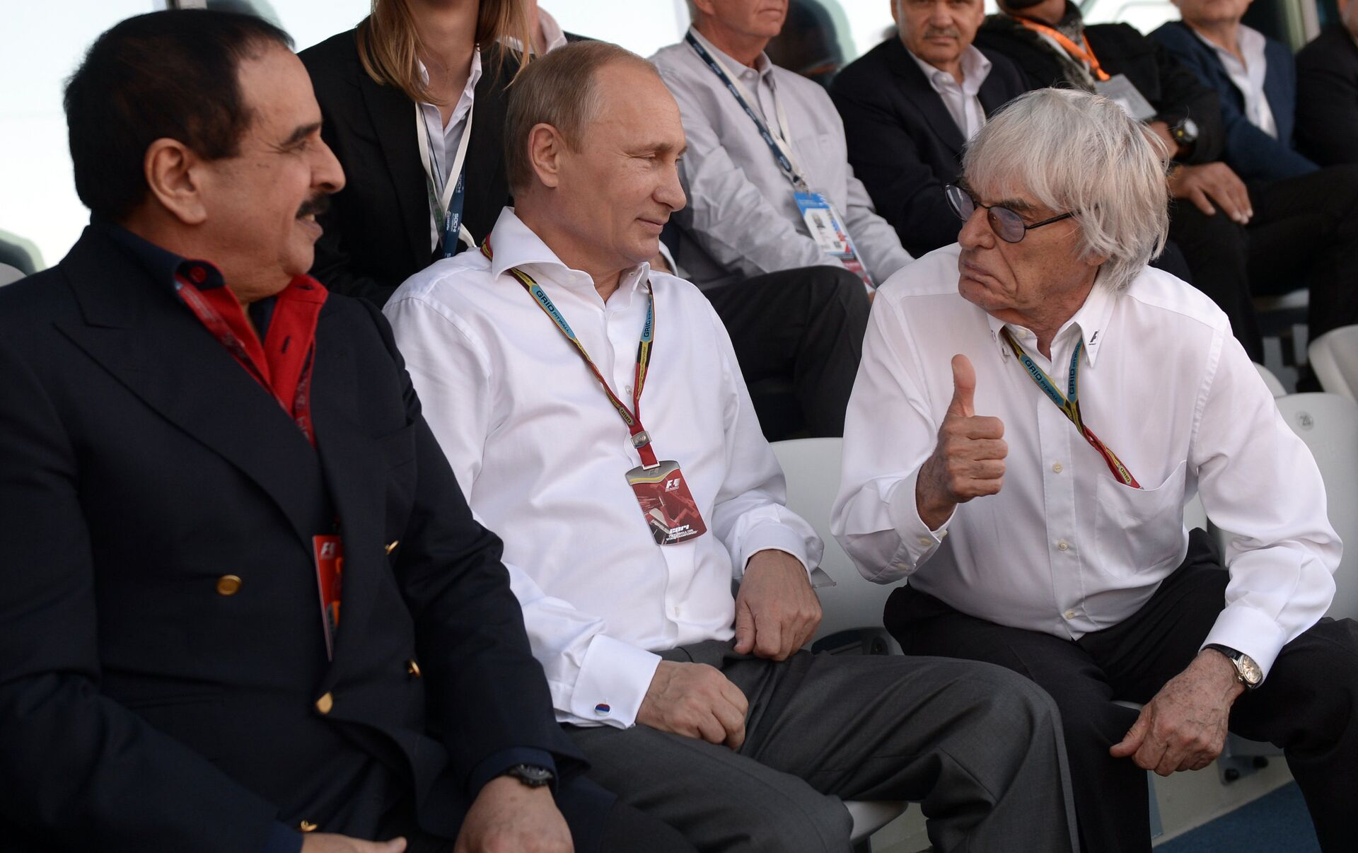 The king of Bahrain Hamad bin Isa Al Khalifa (at the left), the president of Russia Vladimir Putin (in the center) and the president of FOM Bernie Ecclestone (on the right) on tribunes of the races Formula One in Sochi. October 12, 2014